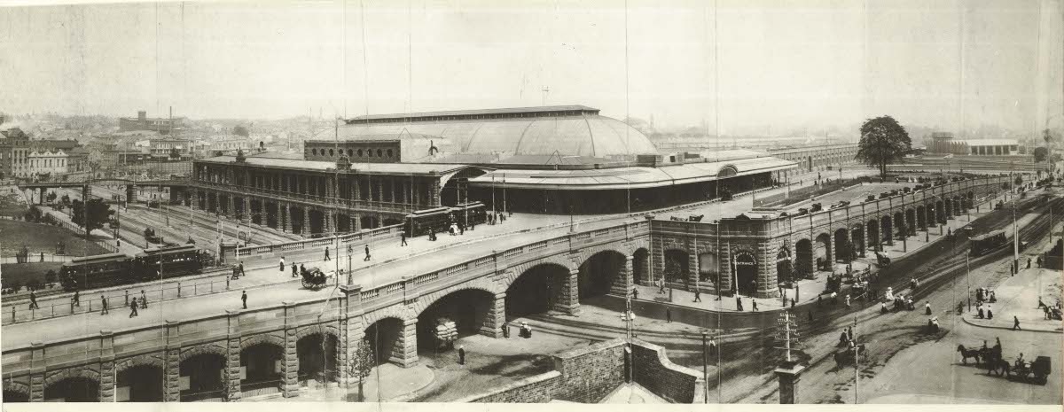 Overhead view of Central Railway Station from George Street, Sydney Dated: by 1906 Digital ID: 17420_a014_a014000271 Rights: We'd love to hear from you if you use our photos/documents. Many other photos in our collection are available to view and browse on our website using Photo Investigator.